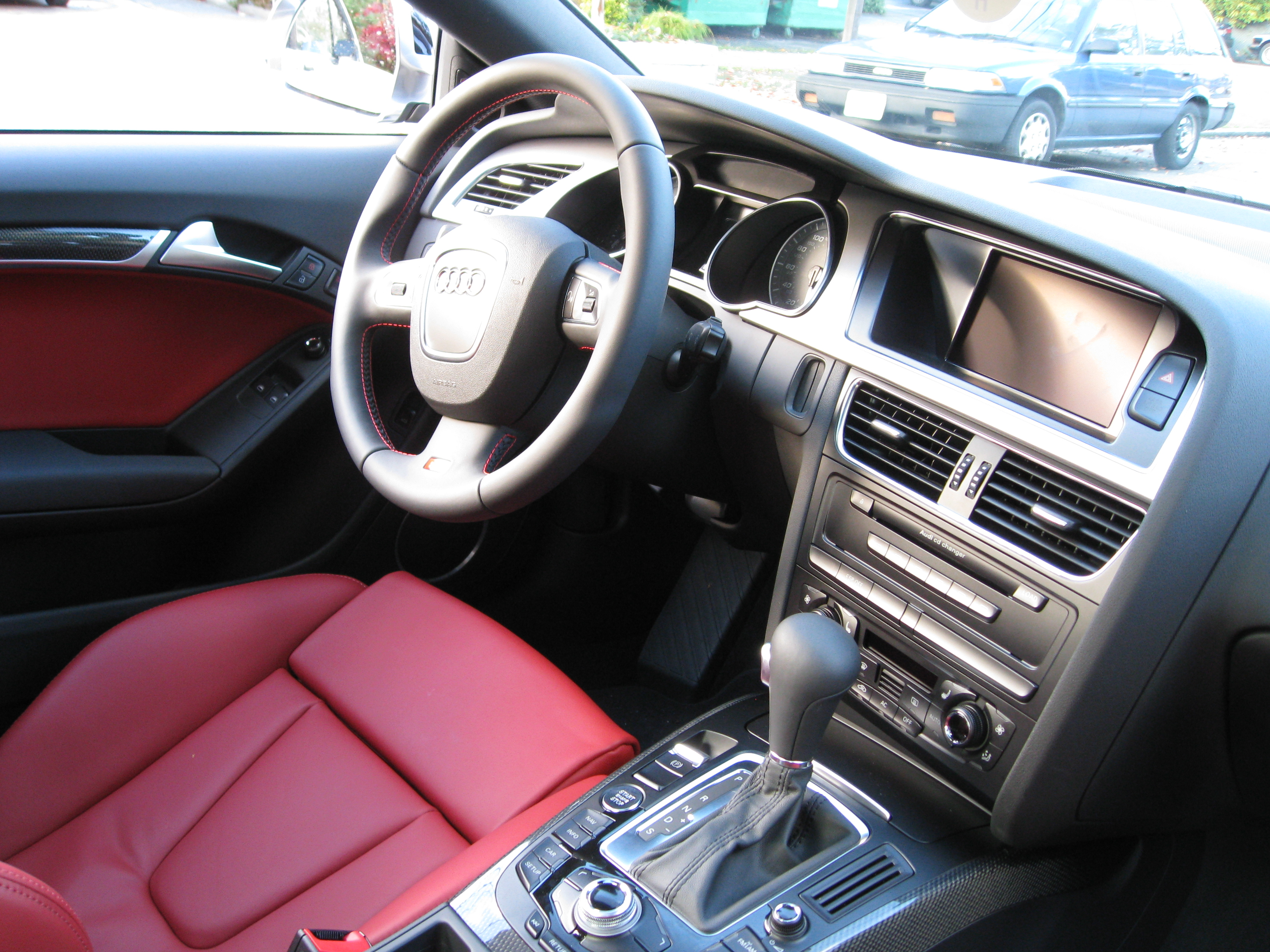 The interior of a Audi S5